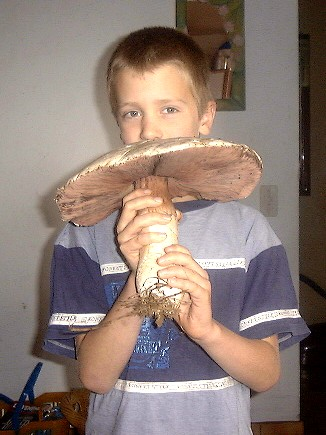 Agaricus arvensis